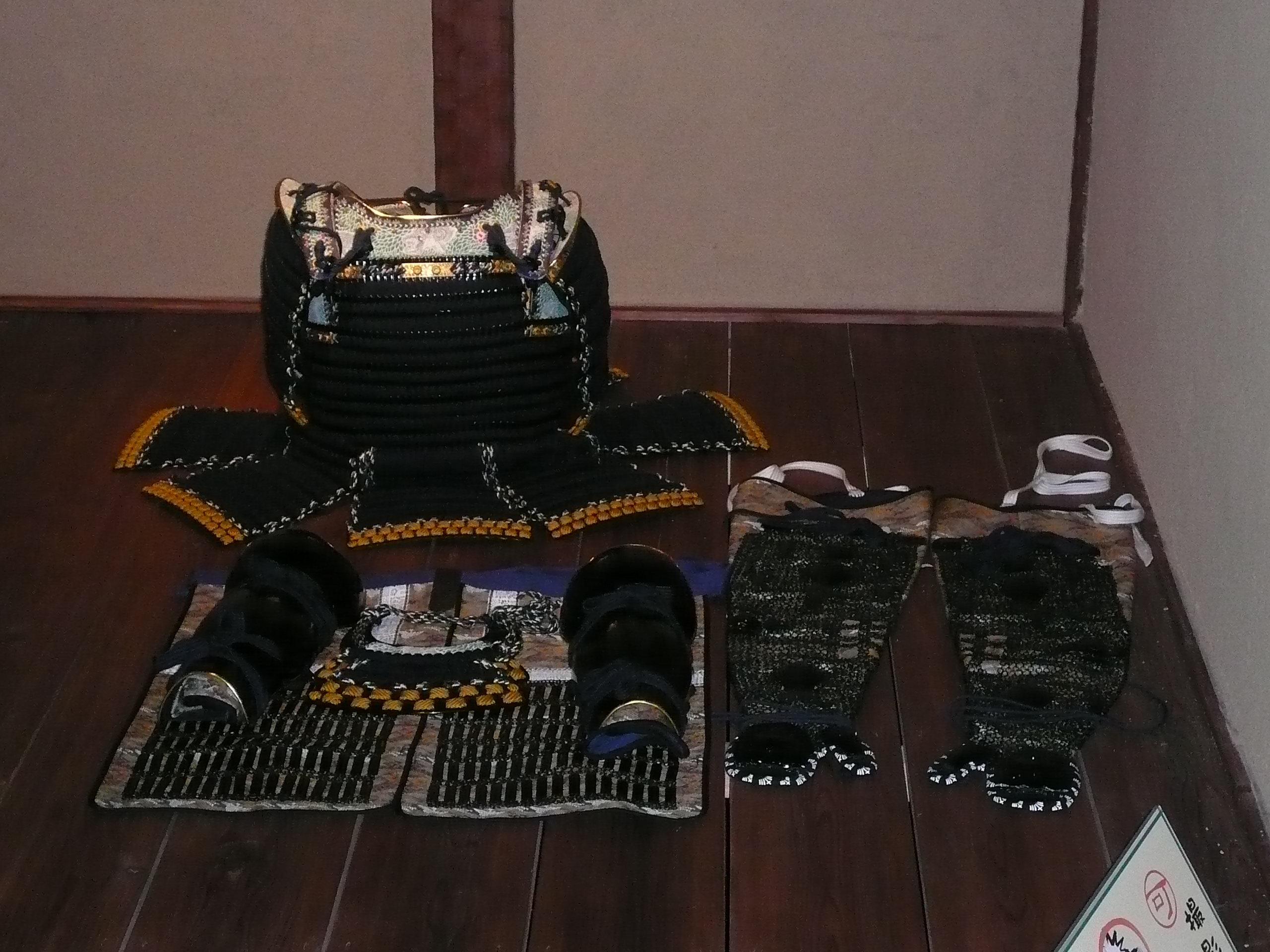 A picture of armor at the Gifu City Museum of History. The picture was taken in March 2007.